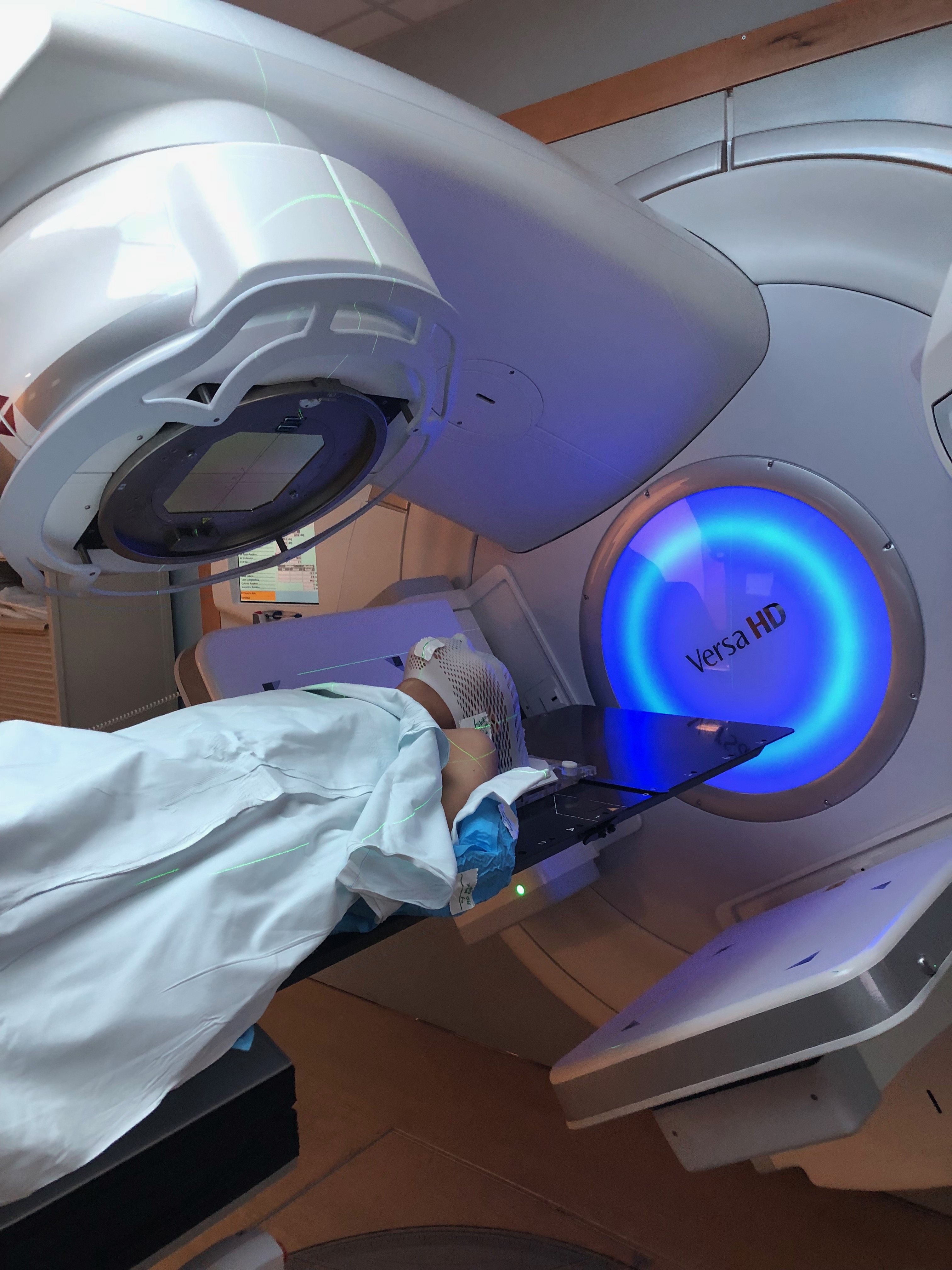 Photo taken right before the 14 dose of radiation. Full face mold was taken to keep head in place. Radiation was delivered to the right side of the neck. #1 rule—don't move!